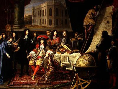 Jean-Baptiste Colbert (1619-83) Presenting the Members of the Royal Academy of Science to Louis XIV (1638-1715)